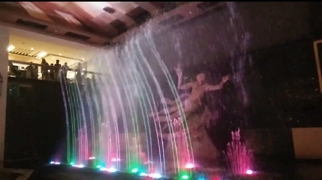 Waltzing water